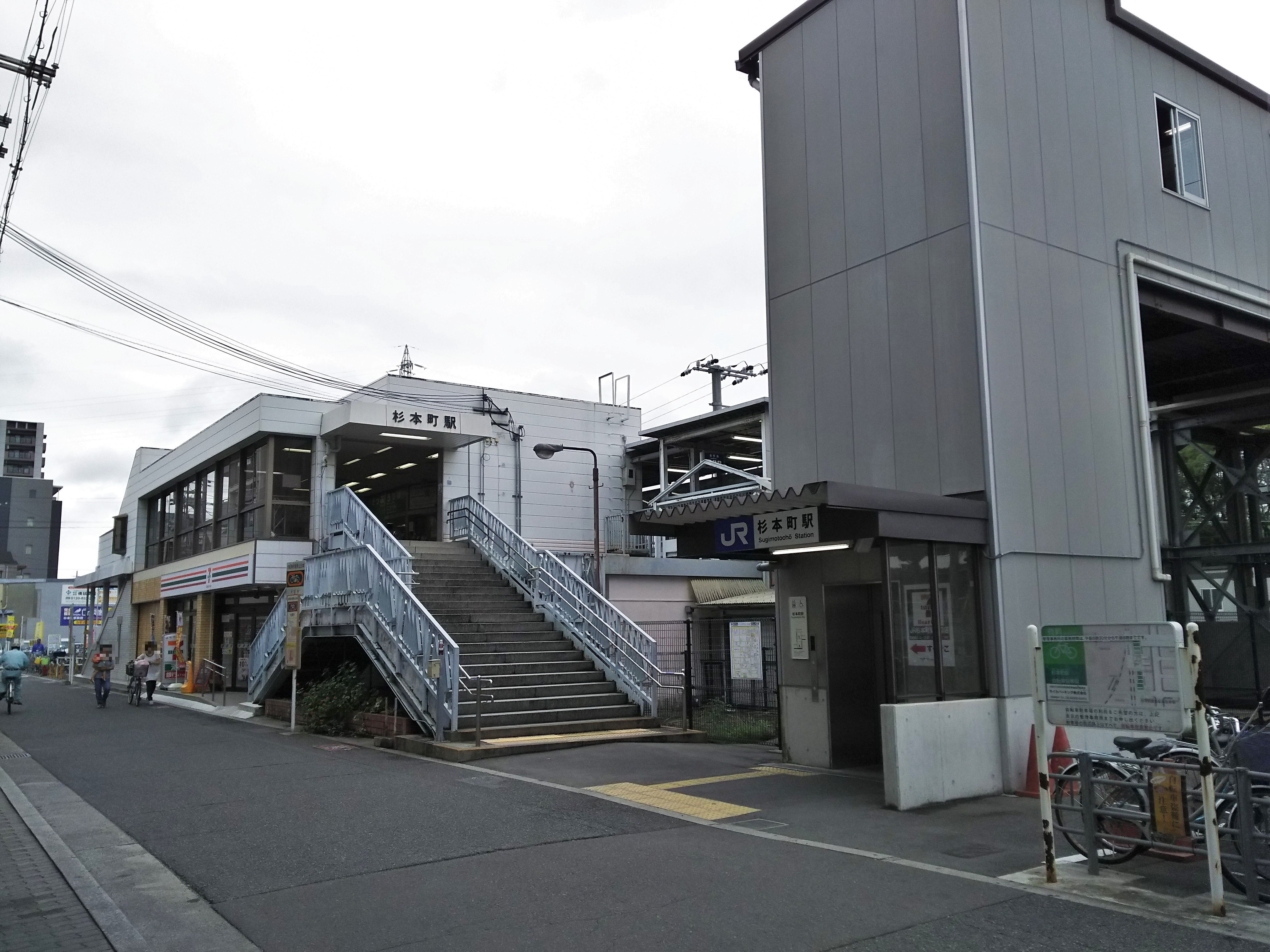 The west entrance to Sugimotochō Station on the JR Hanwa Line